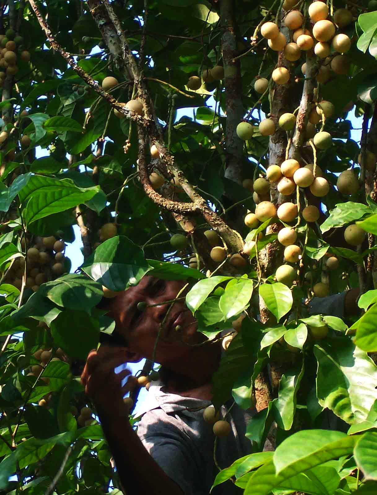 Harvesting duku, Lansium domesticum fruit. From Mandi Angin, Rawas Ilir, Kabupaten Musi Rawas, South Sumatra, Indonesia.